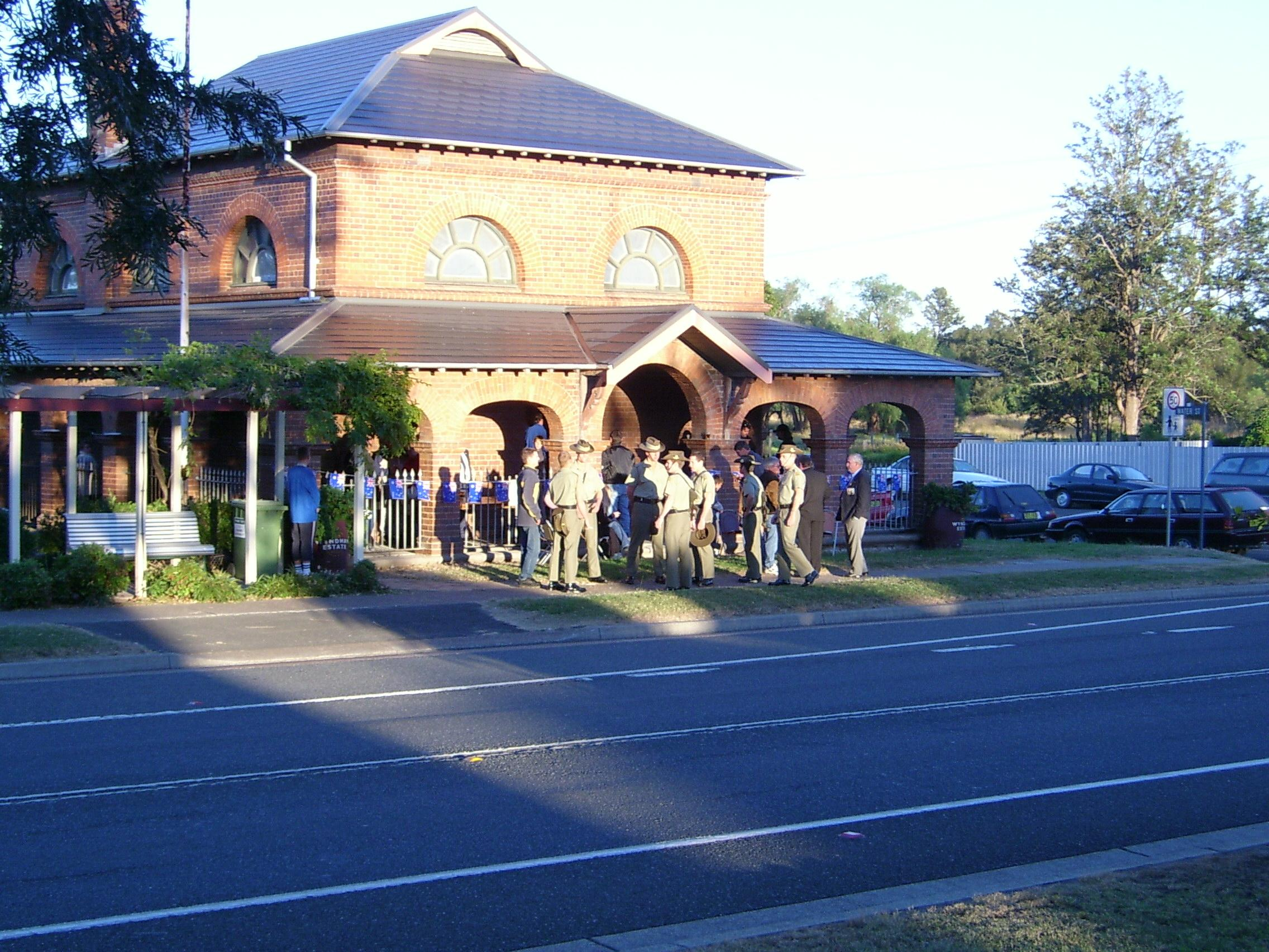 ANZAC Day 2004 at the historic Greta Courthouse